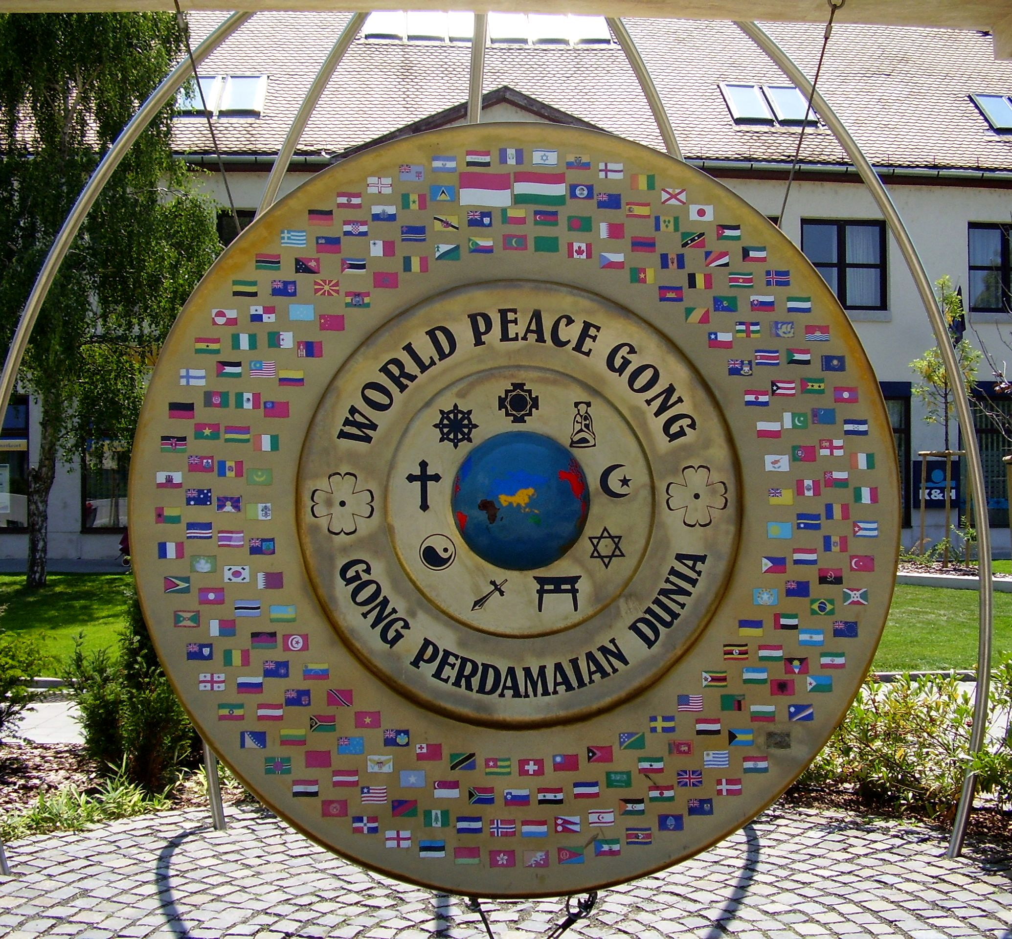 World Peace Gong in Gödöllő. It is Facilitating Brotherhood and Humankind Unification in Planet Earth.